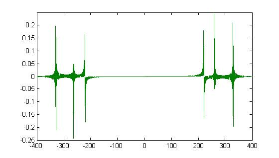 fourier transform of a three freq component signal